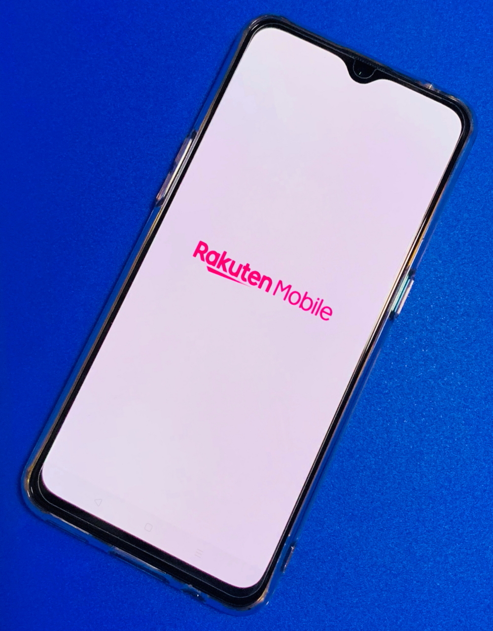 OPPO Reno A 128GB